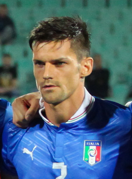 Christian Maggio before the football game with Bulgaria, "Vasil Levski" stadium, Sofia, Bulgaria, September 7, 2012